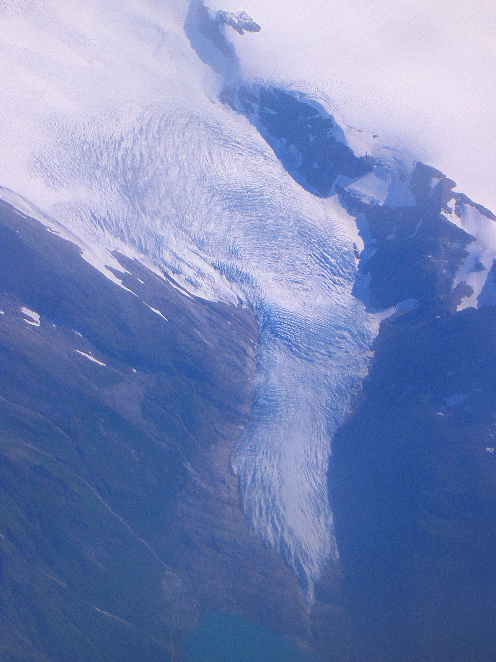 Engabreen from above, July 2006. Photo: Guttorm Raknes